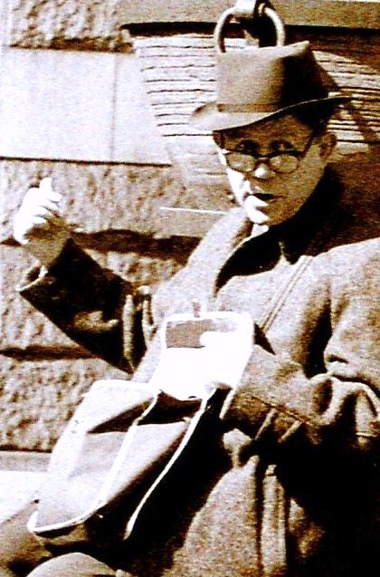 Sten Karling (1906–1987), art historian